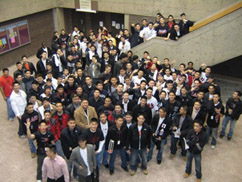 A picture I took at Convention 3 at Rutgers University, Spring 2005.